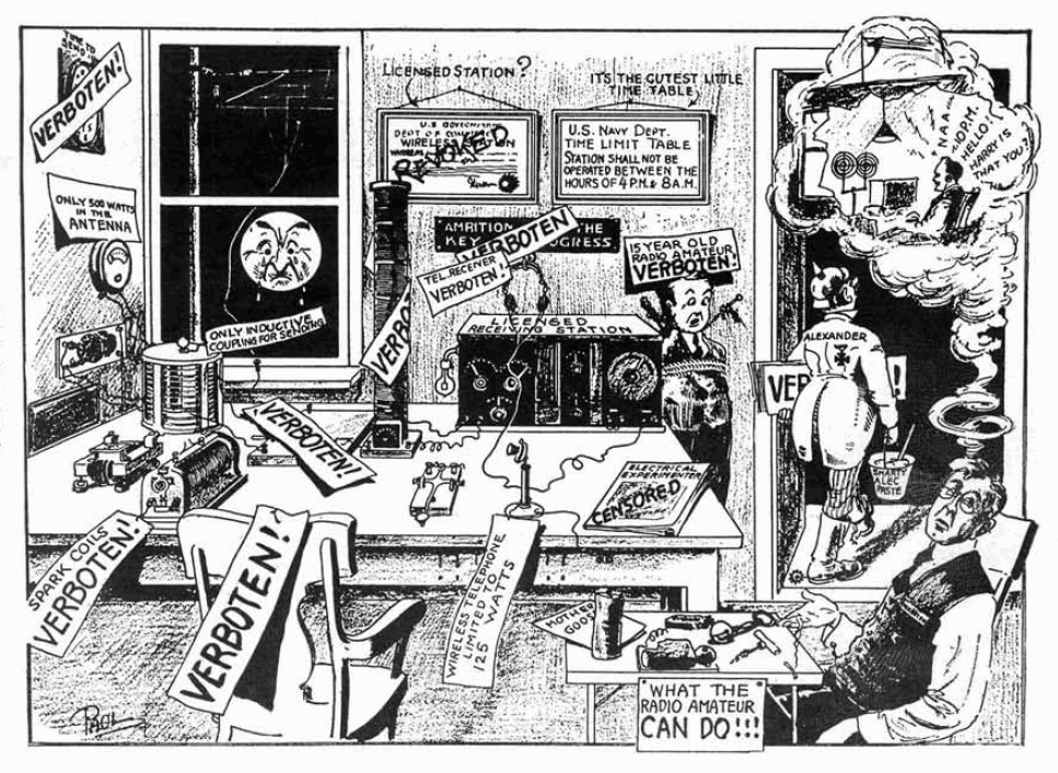 Editorial cartoon in February 1919 issue of Hugo Gernsback's magazine Electrical Experimenter, opposing proposed government regulation of amateur radio. Prior to World War 1, the new technology of "wireless" (radio) communication had been mostly unregulated by the government, and experimenters in "amateur radio" were largely free to do as they wanted. However radio stations had proved a vital national resource during the War, and in the conservative atmosphere following the Armistice in 1918 bills were introduced in Congress, the "Poindexter bill" in the Senate and the "Alexander bill" in the House, to make radio communication a government monopoly run by the Navy, and severely restrict private "amateur" radio activities. The cartoon depicts "Alexander" in caricatured Prussian military garb, a reference to U.S. Secretary of Commerce Joshua W. Alexander. Gernsback headlined an editorial the previous month, "Prussianizing the American Ether" [1]. Hugo Gernsback, a visionary champion of amateur radio and publisher of one of the few magazines in the country devoted to it, lampooned the restrictions with this cartoon in his February 1919 issue. Due to opposition from radio amateurs and many other quarters, the bills died.